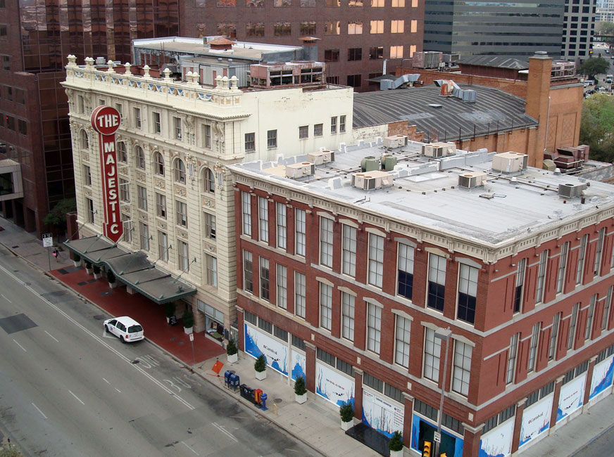 The Majestic Theatre in Dallas, Texas.